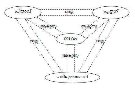 Malayalam-language version of Christian Trinitarian "Shield of the Trinity" diagram, created on the lines of File:Shield-Trinity-Scutum-Fidei-English.png